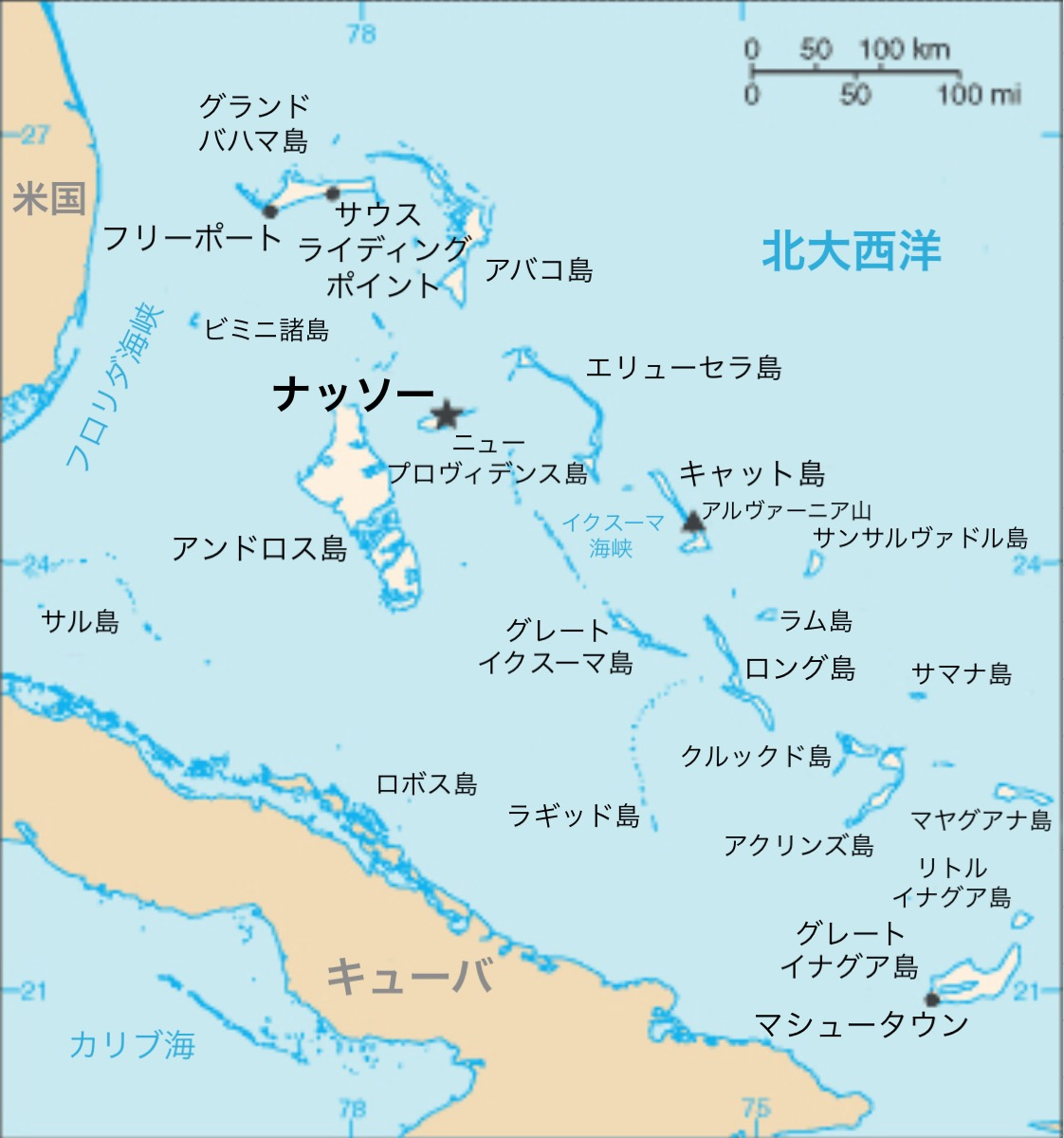 Map of The Bahamas in Japanese (from CIA World Factbook)